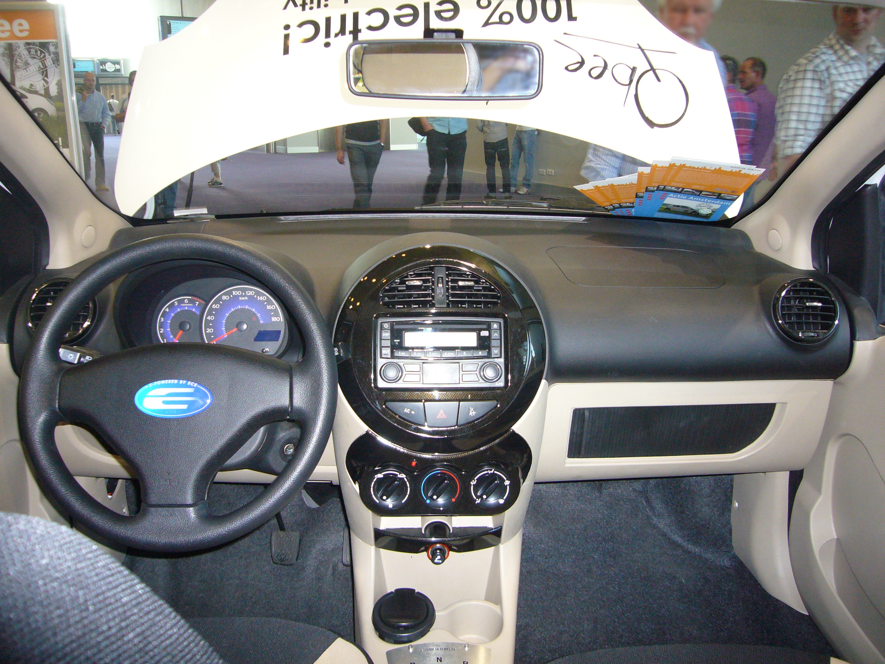 ECE Qbee (based on Geely Panda) at AutoRAI Amsterdam 2011